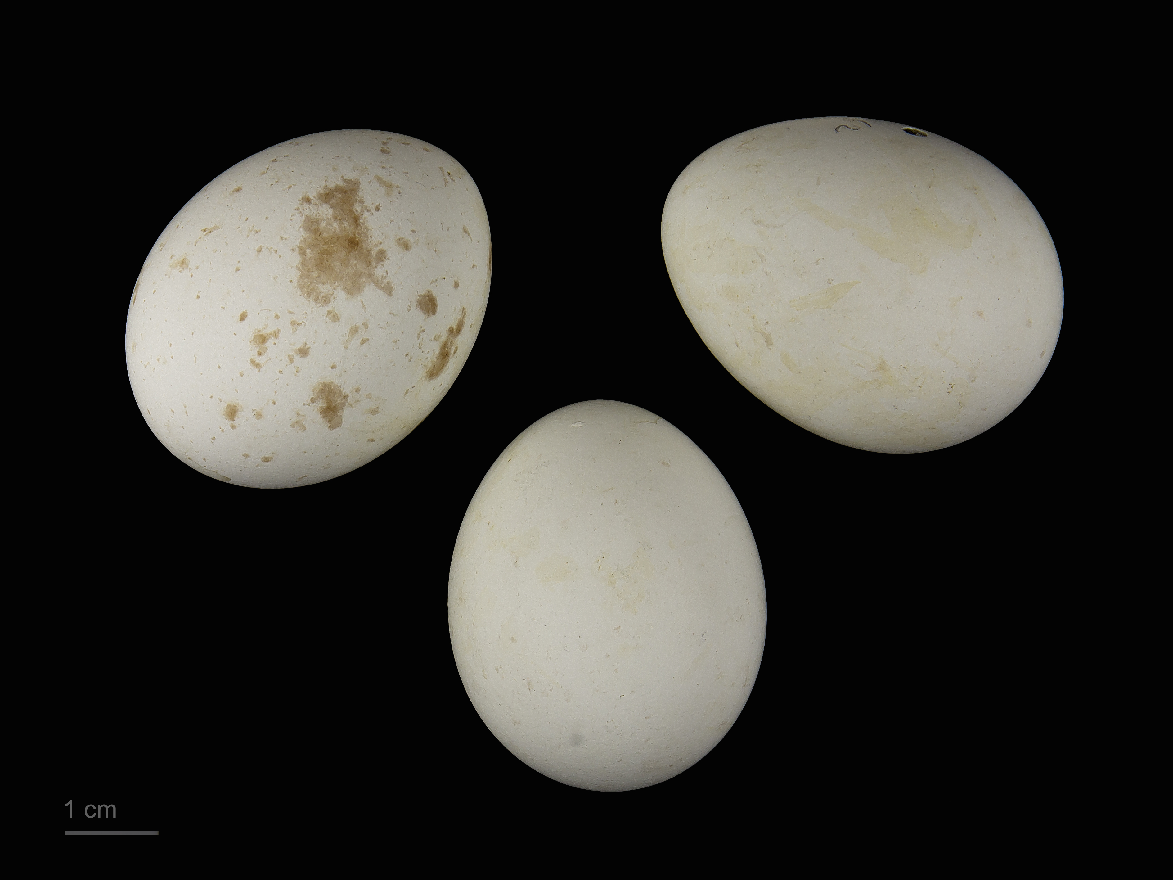 Eggs of Montagu's harrier Three specimens of the same spawn ; collection of Jacques Perrin de Brichambaut.